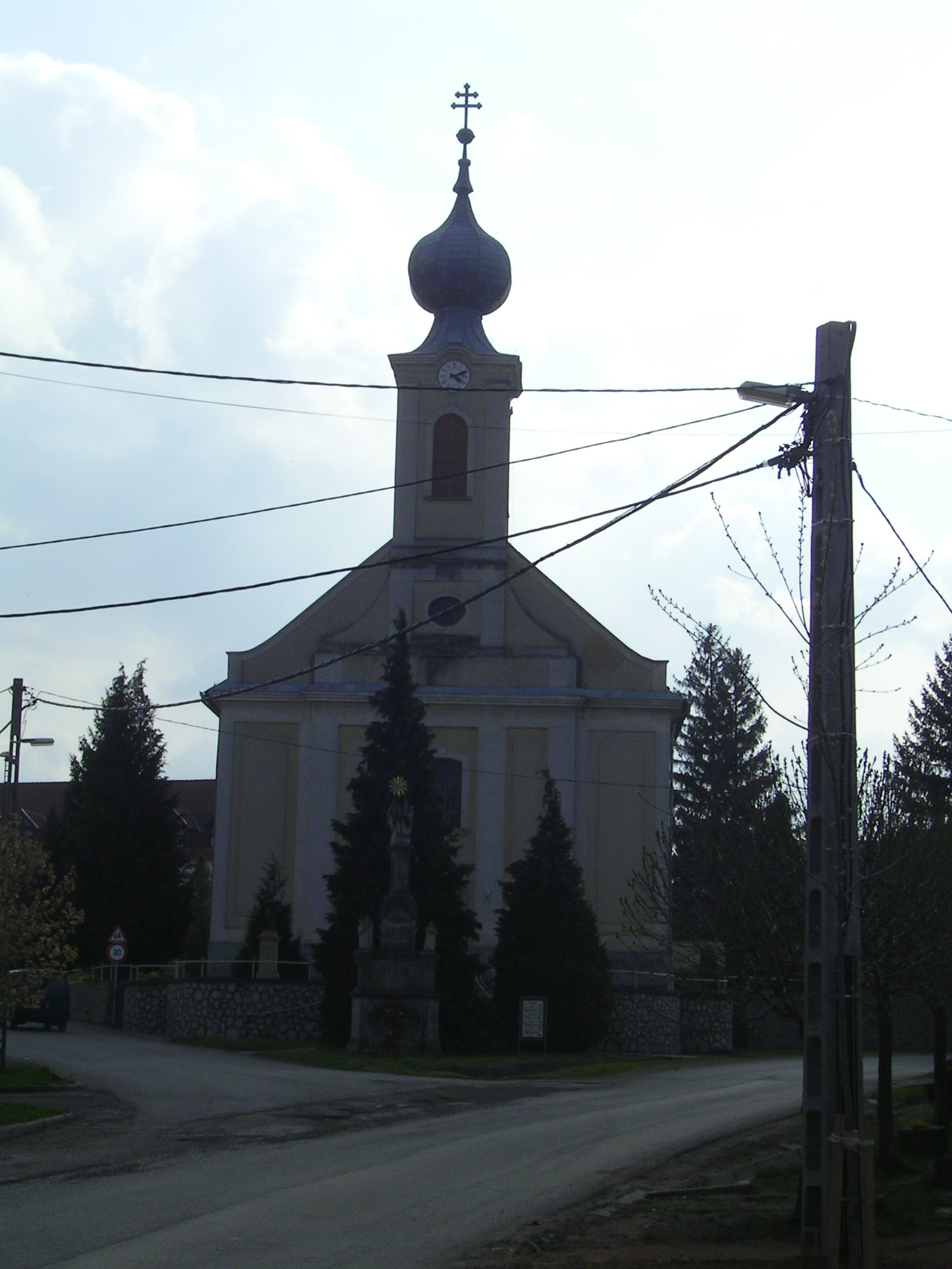 Roman catholic church in Véménd, Hungary